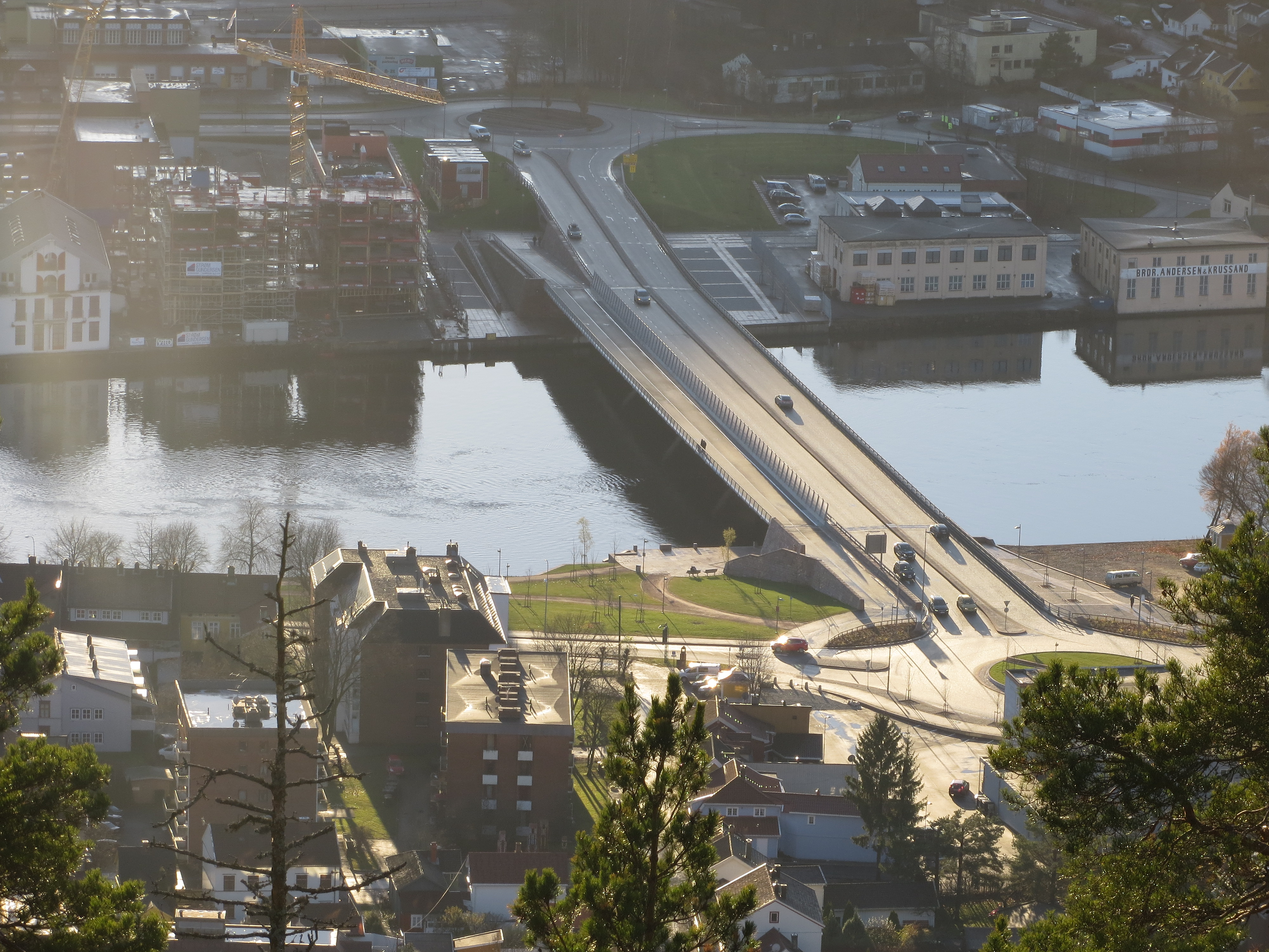 Øvre Sund Bridge (Øvre sund bro) in Drammen, Buskerud county (Norway). The bridge was completed in 2013. It connects both sides of the Drammenselva river as County road (fylkesvei) number 283 (FV 283).